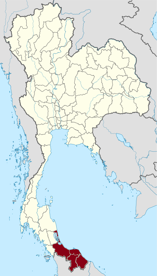 Provinces where sharia applies in personal status issues (such as marriage, divorce, inheritance, and child custody)..Yala, Narathiwat Pattani and Songkhla [1] Provinces where sharia applies in personal status issues (such as marriage, divorce, inheritance, and child custody), but otherwise have a secular legal system. ↑ (22 June 2009). "Thailand May Extend Shariah Law in Violence-Ridden Muslim South". Error: journal= not stated. Bloomberg L.P.. Retrieved on 18 February 2013.